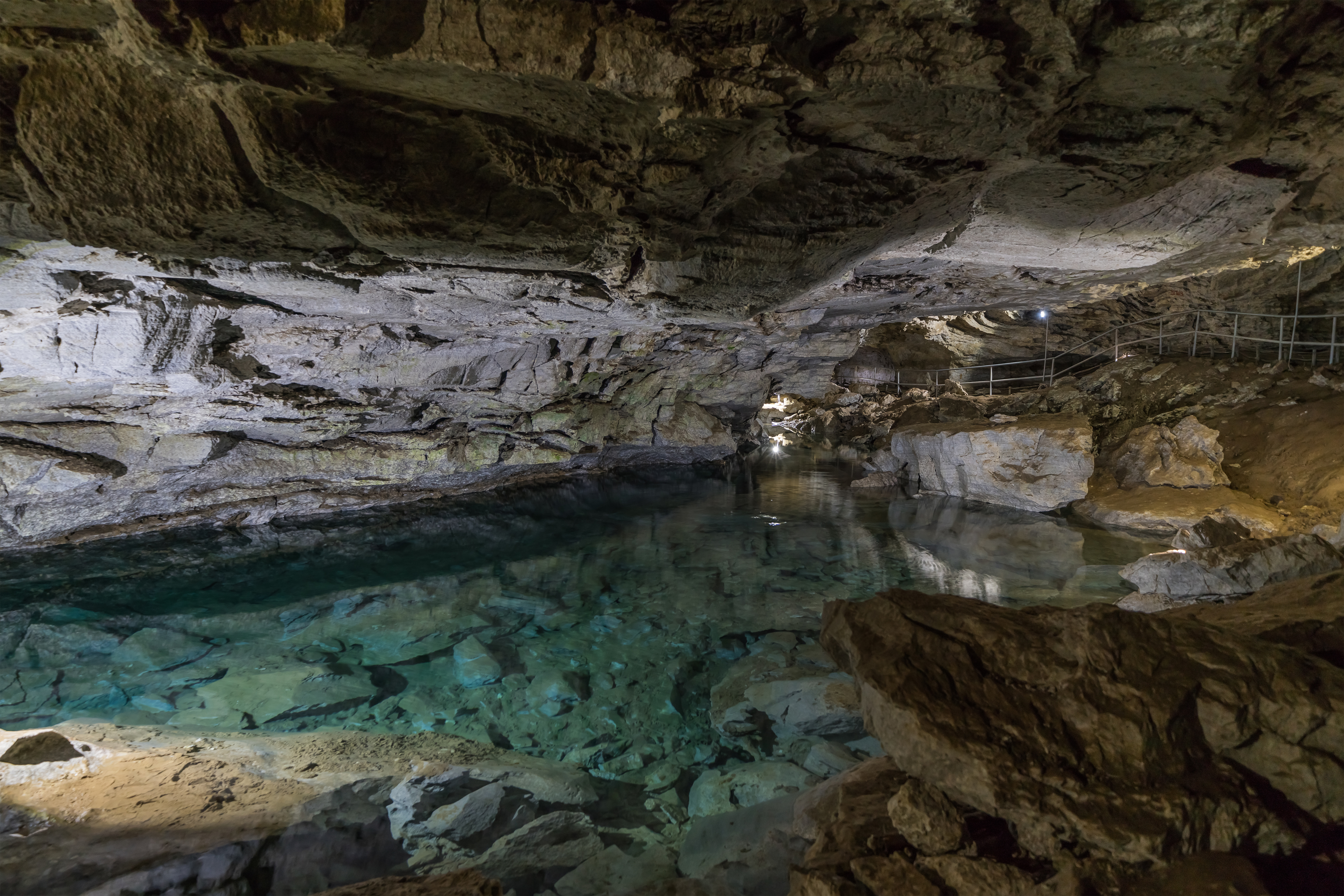 Long Grotto of the Ice Cave in Kungur, Perm Krai, Russia